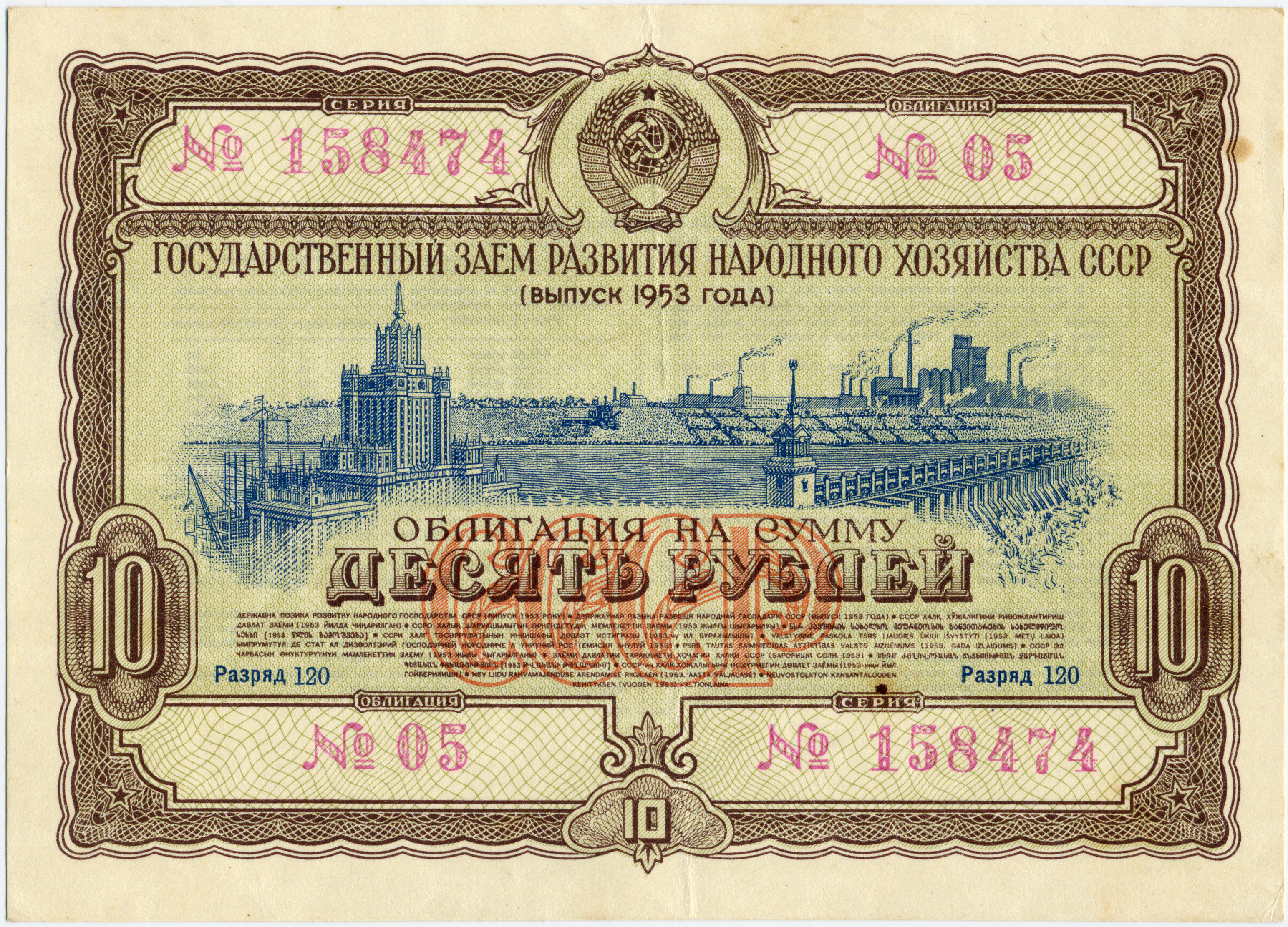 Soviet Union bond, 1953, 10 rubles, obverse.